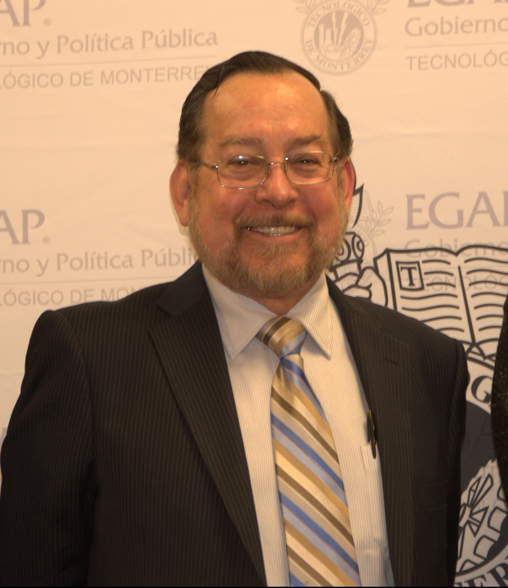 Hector Moreira Rodriguz in the presentation of the book Construyendo el futuro de Mexico by teachers of EGAP, ITESM Campus Ciudad de Mexico